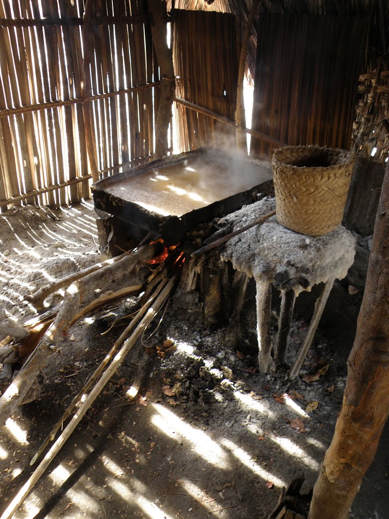 Cooking salt, 7 km west of Aquaculture salt and fishponds at Tibar, Dili Timor-Leste